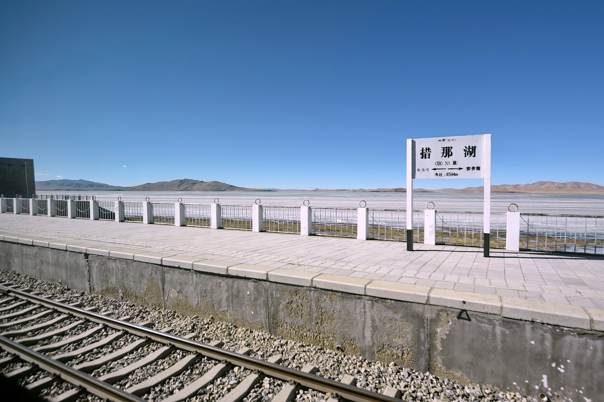 Cuonahu Railway Station, Qinghai-Tibet Railway (altitude 4594m)